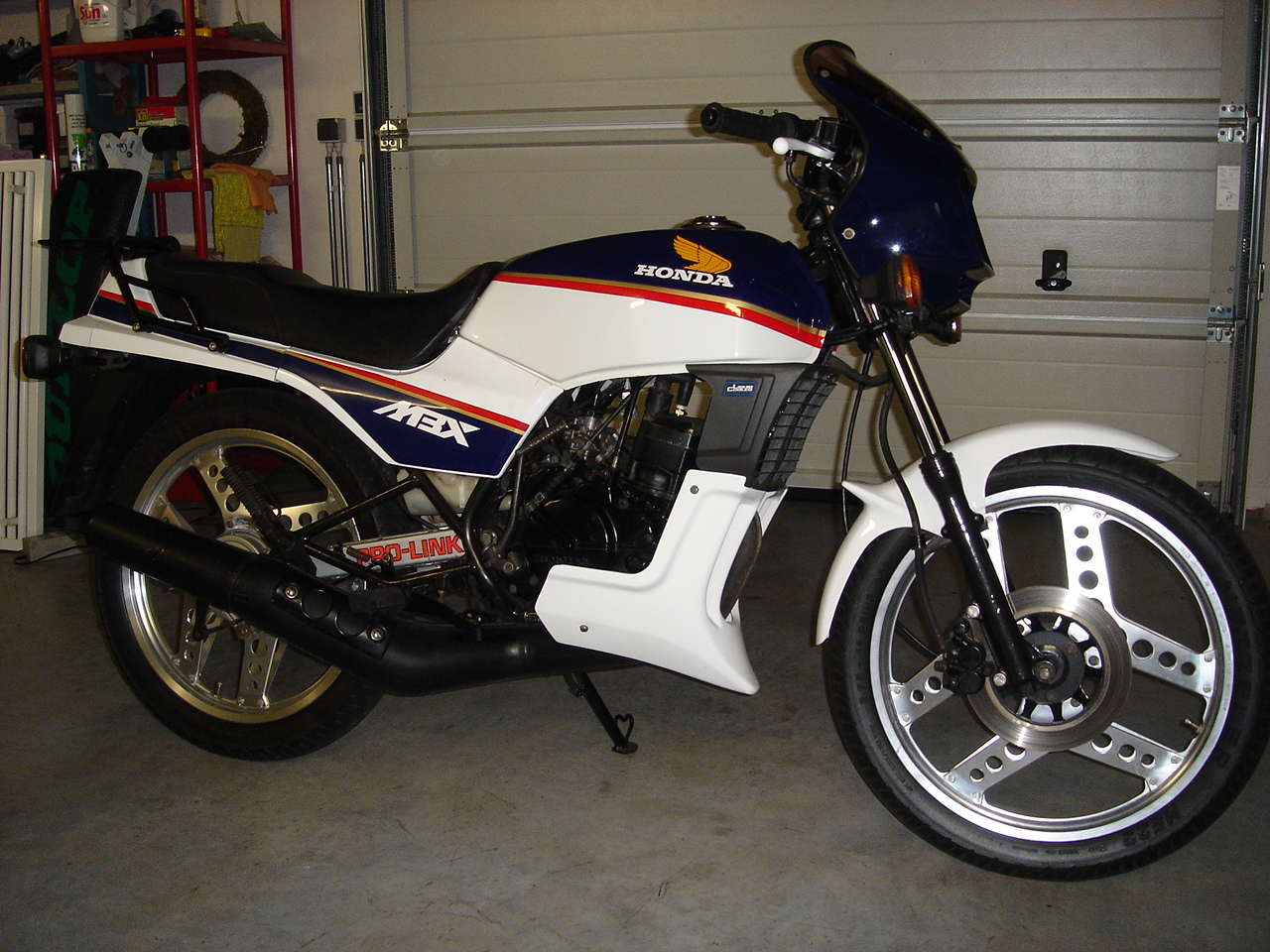 Rothmans honda mbx80